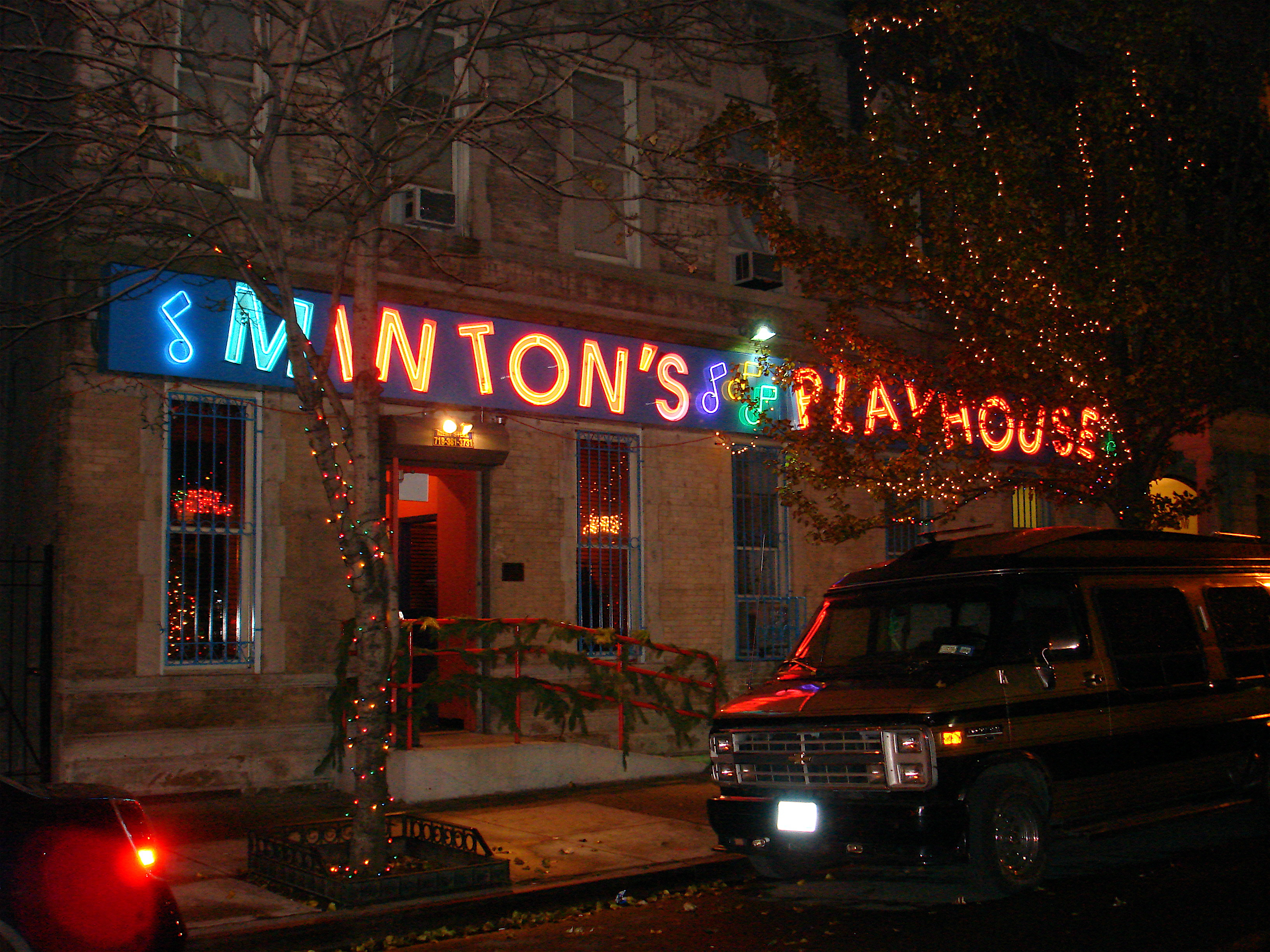 Minton's Playhouse